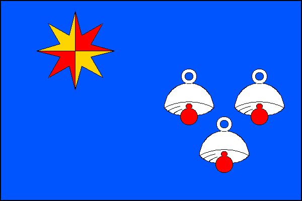 Municipal flag of Křižanovice village, Vyškov District, Czech Republic.